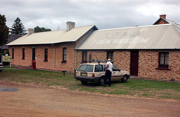 ALBANY CONVICT JAIL; in Albany, Western Australia, SERVED TO HOUSE CONVICTS FROM 1850 TO 1868; IN 1873 THE JAIL WAS CONVERTED INTO A PUBLIC JAIL.